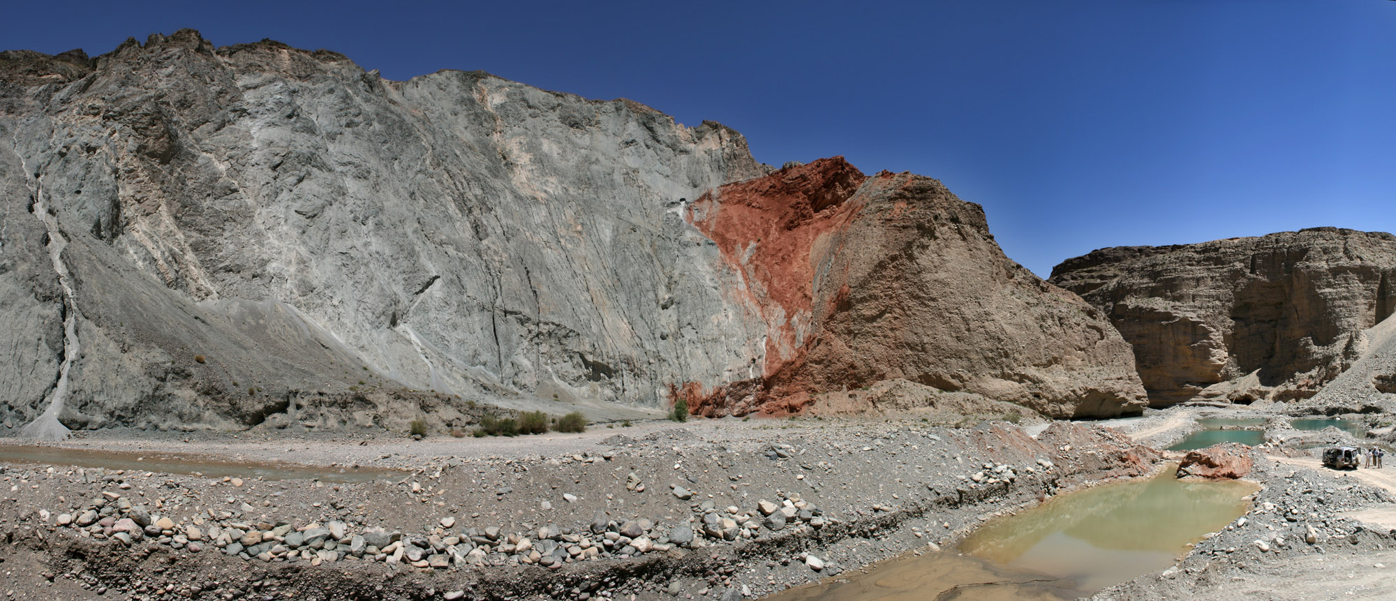 Thrust fault in the North Qilian Mountains (Qilian Shan). The blueish rock is a thick fault gouge of basement, the redish stuff is above the fault plane. Everything thrust over the brown quaternary conglomerates (right part of the picture). The fault plane dips 65 degrees to the South.